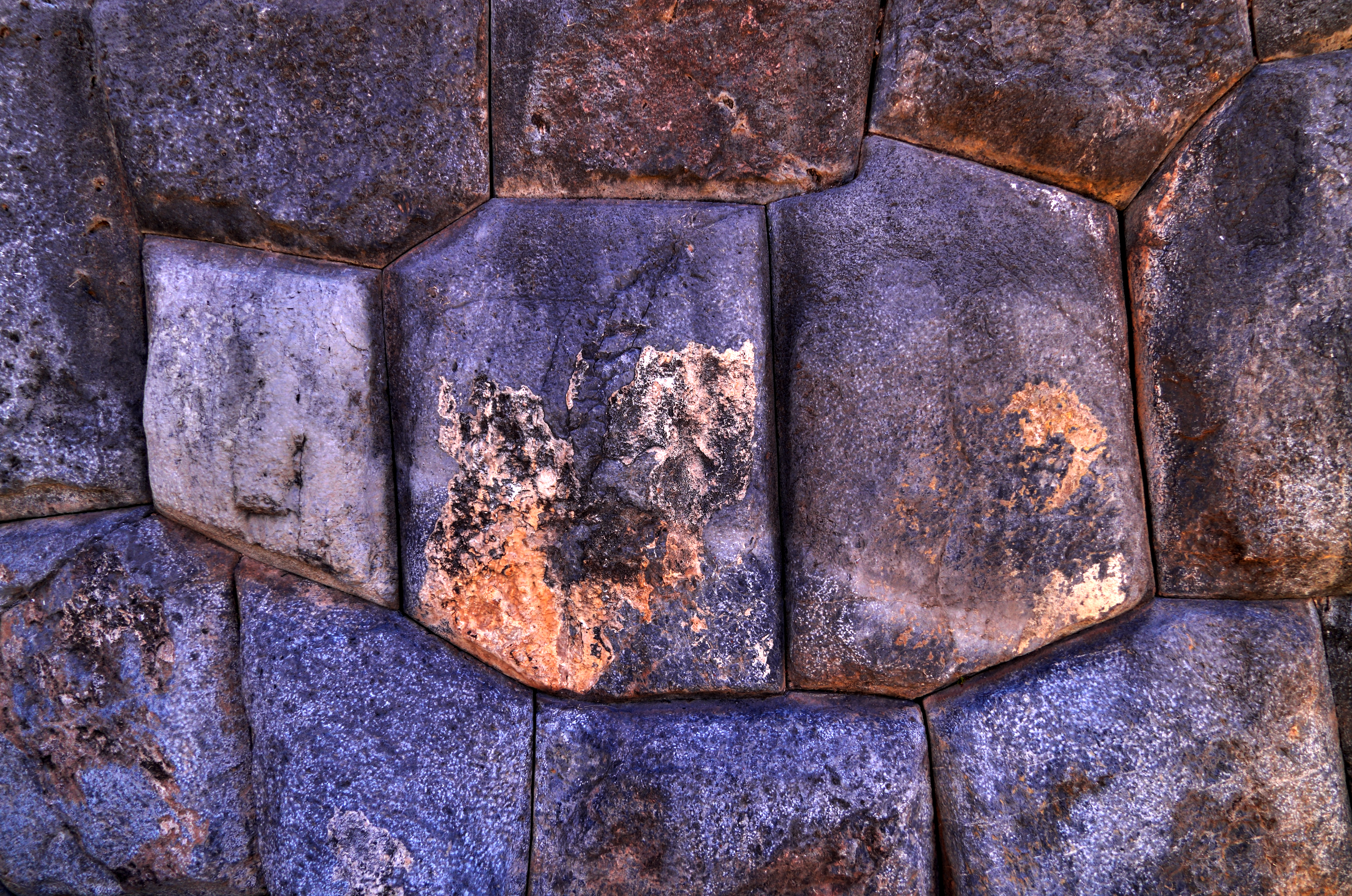 Please, have this description accessible to all by translating it in different languages.